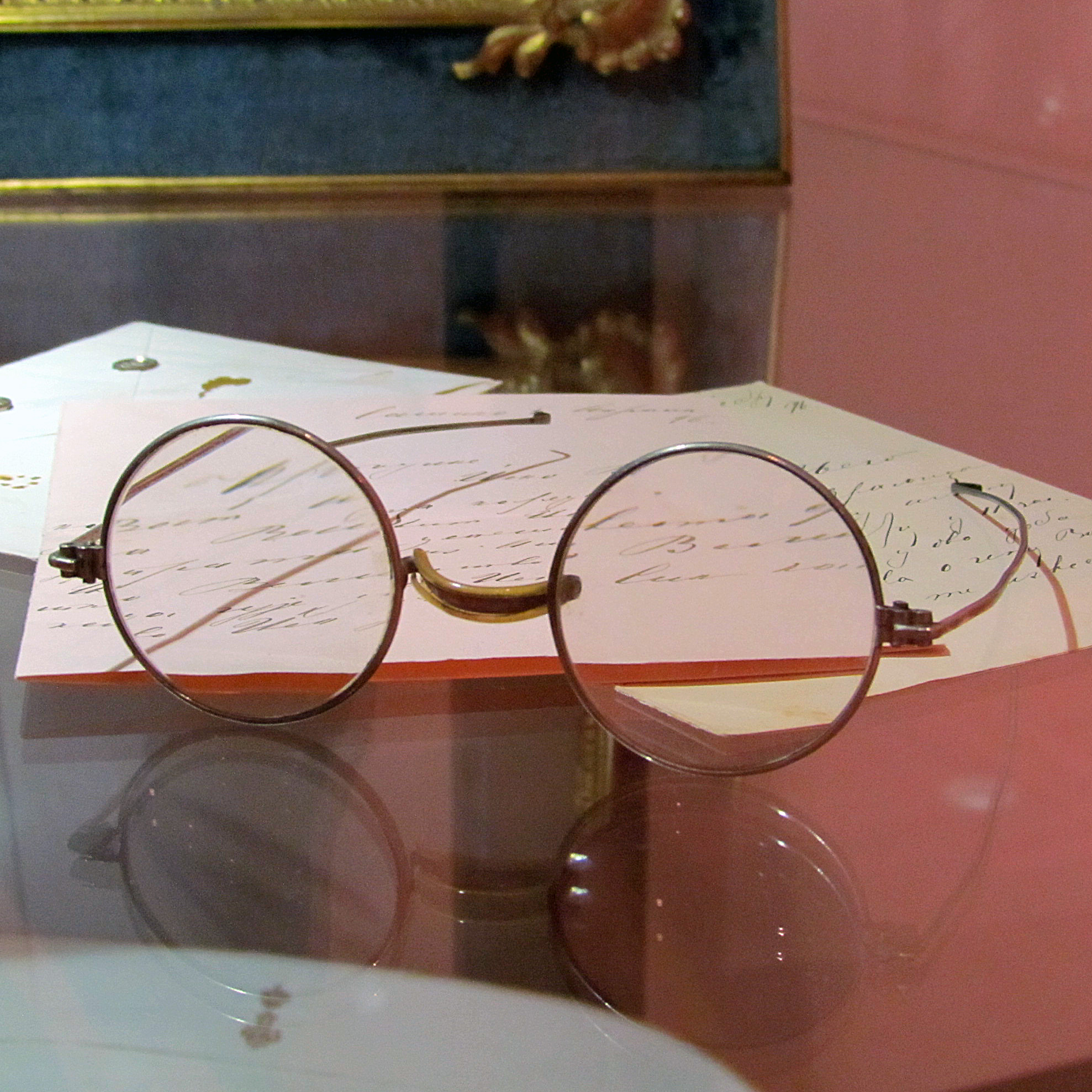 King Aleksandar Obrenović's spectacles, late 19th c. Historical Museum of Serbia